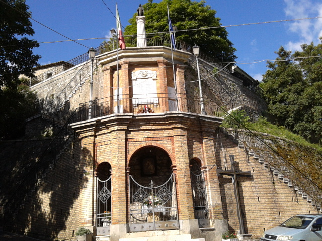 Flight of steps and the war memorial, Civitella Roveto, Abruzzo, Italy